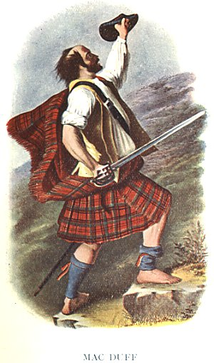 "Buchanan". A plate illustrated by R. R. McIan, from James Logan's The Clans of the Scottish Highlands, published in 1845